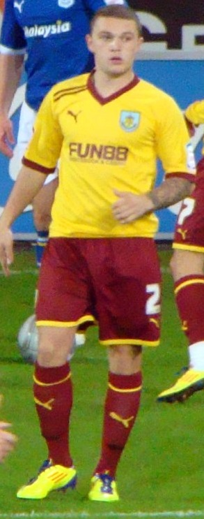 Photo of Kieran Trippier, cropped from File:Cardiff Free Kick.jpg